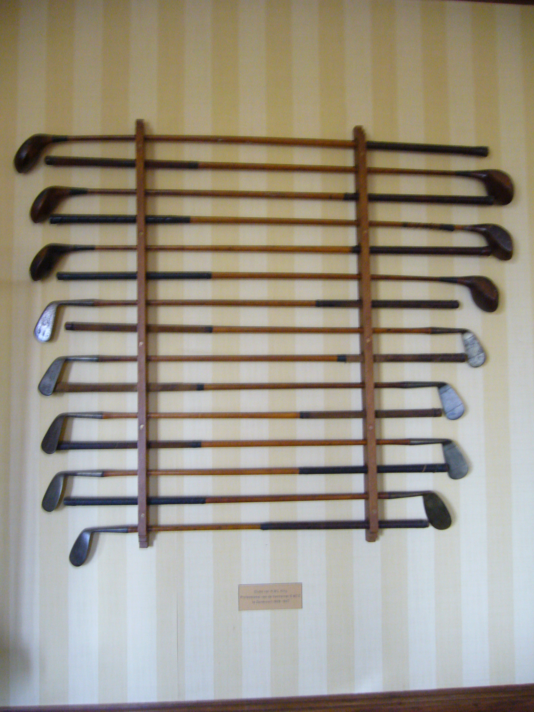 Golfclubs used by HWL King, pro at the Kennemer Golfclub in Holland from 1928-1947